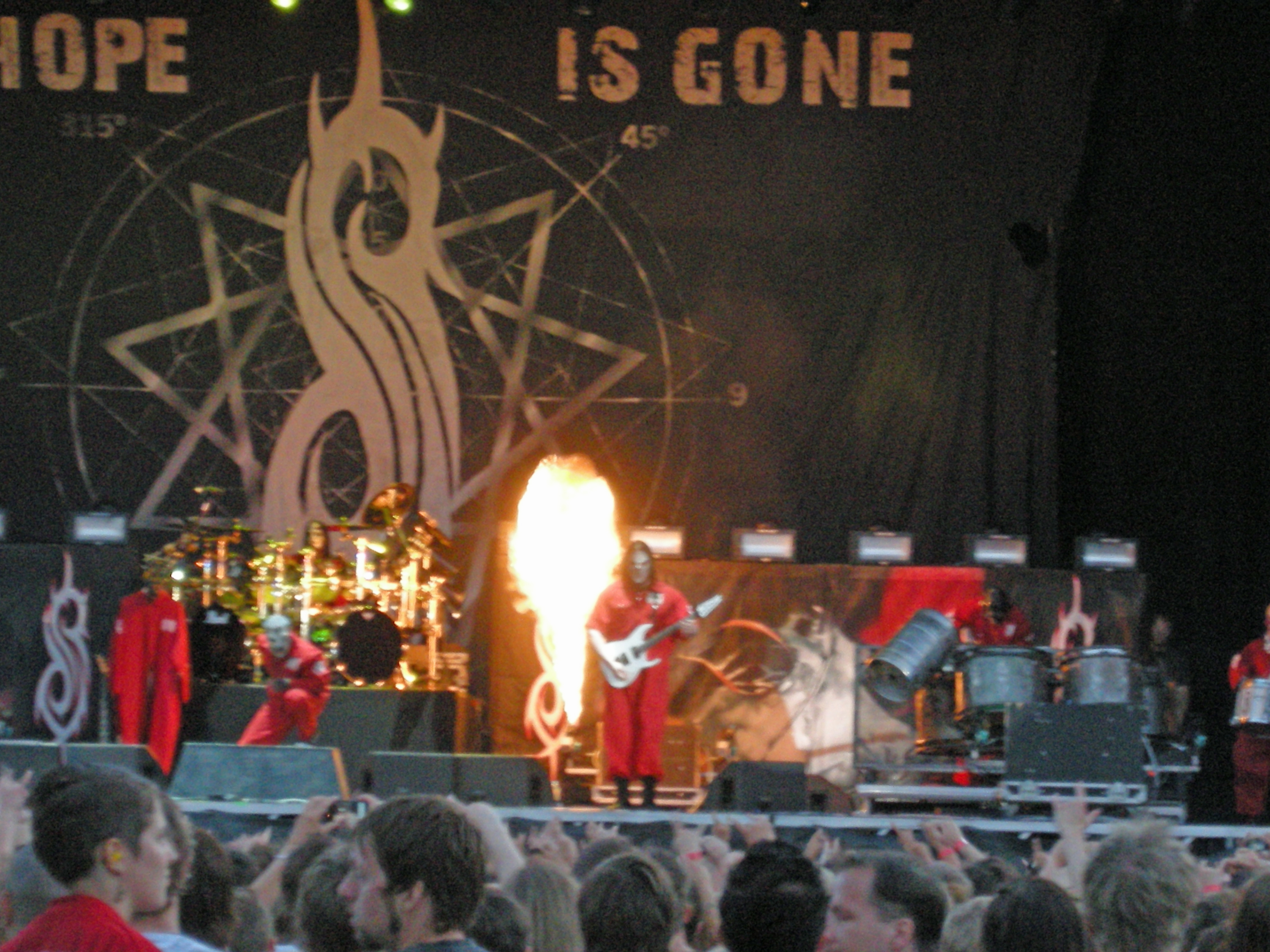 Slipknot at Sonisphere Festival, Stockholm, Sweden 2011